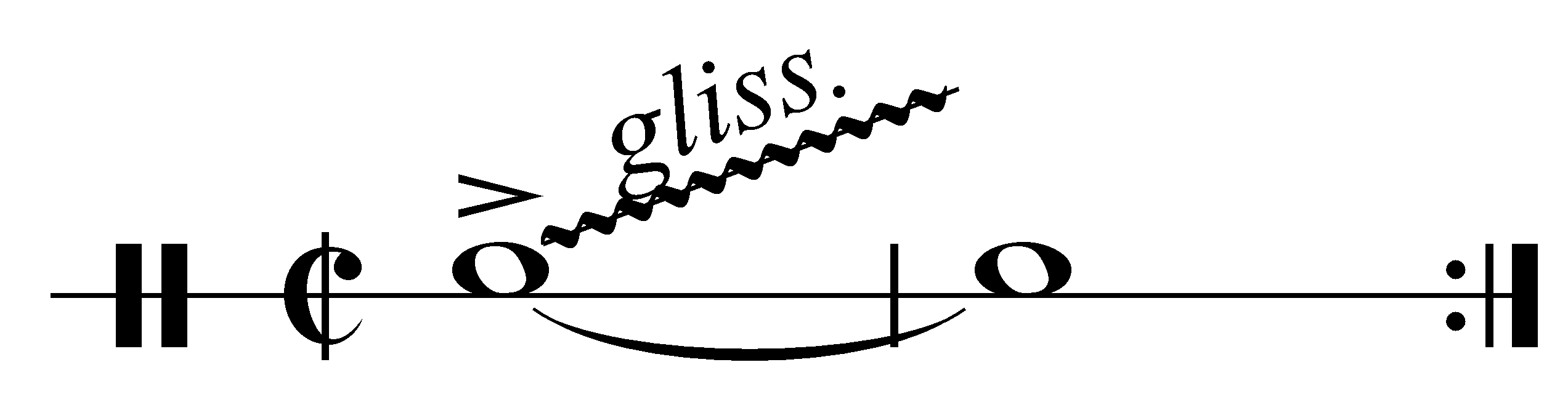 Rhythm pattern for flexatone. Chevron = tremolo. Gliss. = gliss.